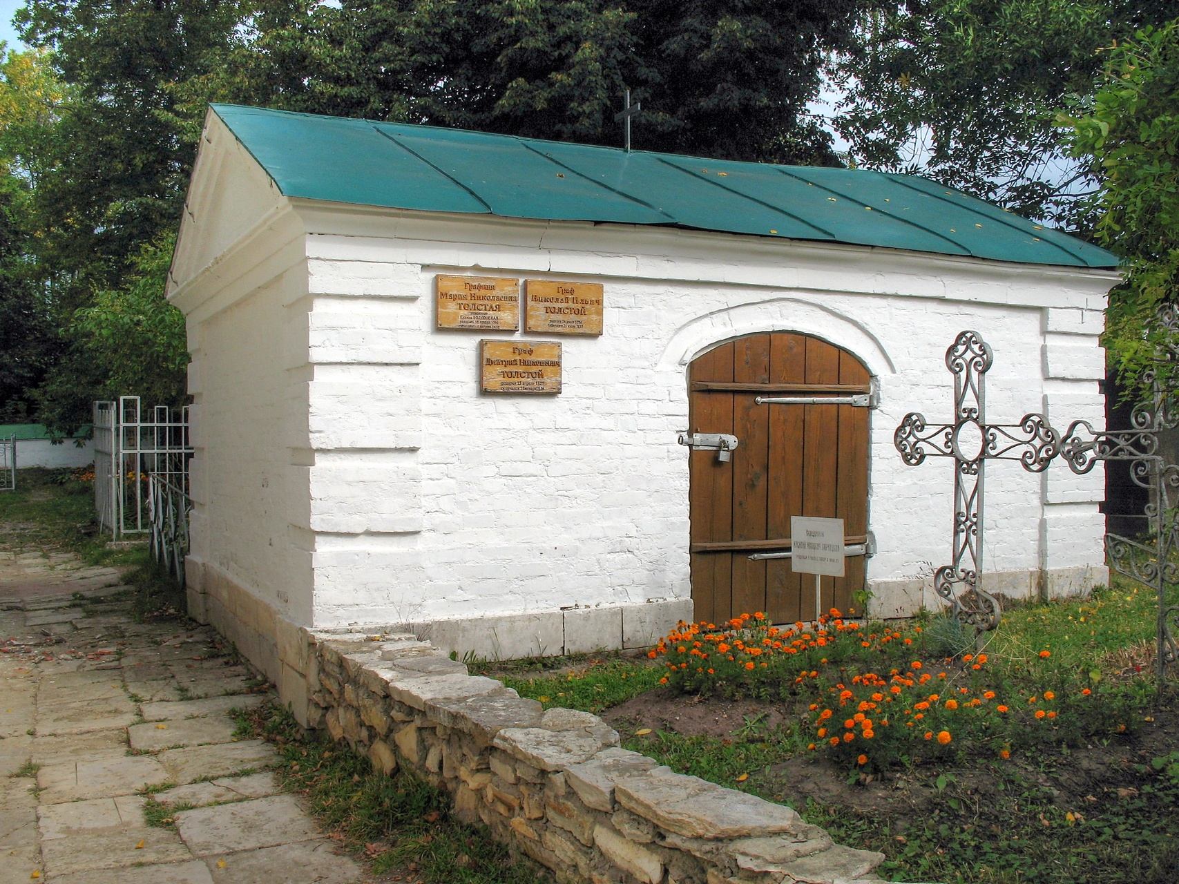 Crypt Tolstoy